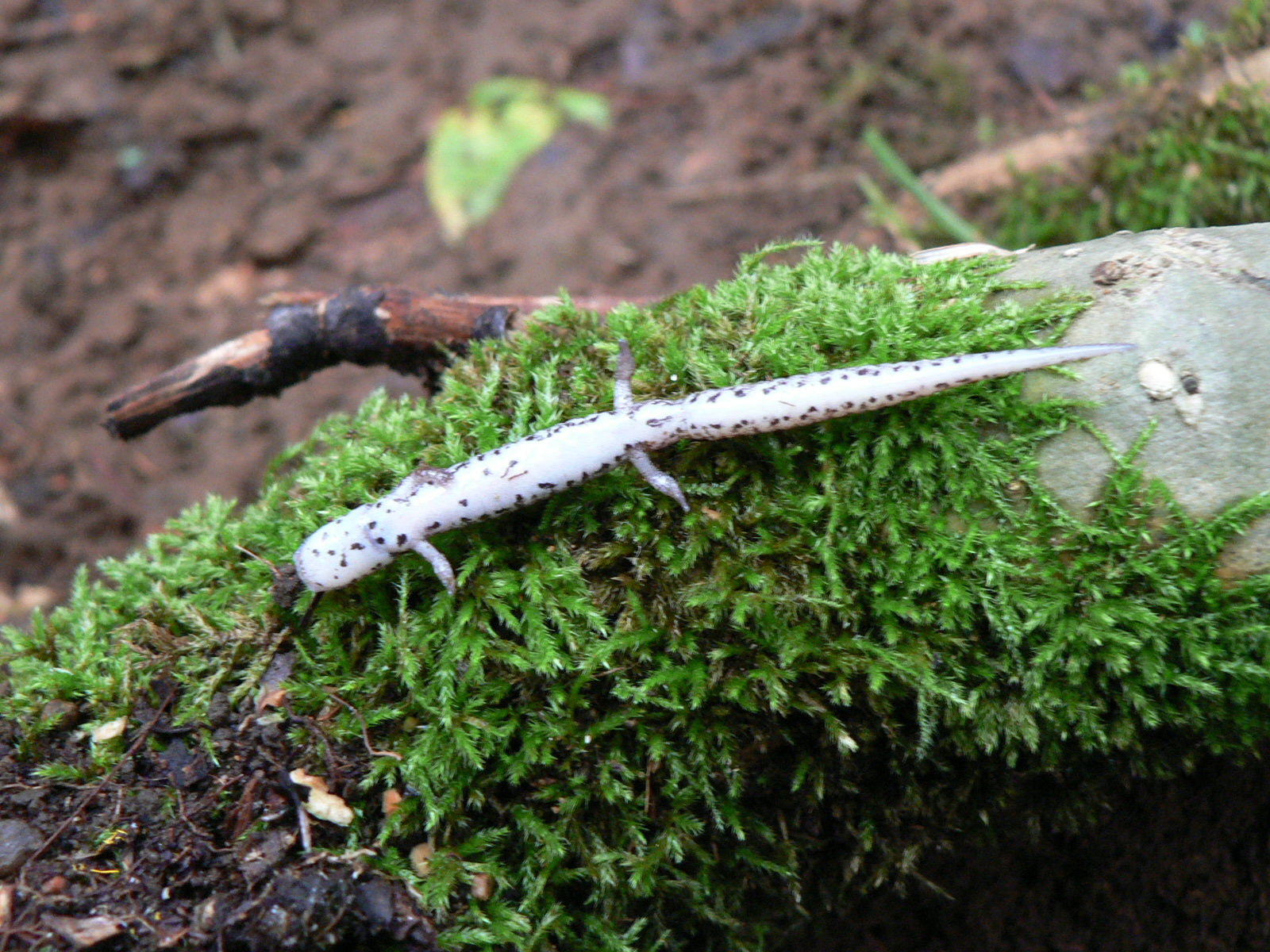 Ventral view of the four-toed salamander (Hemidactylium scutatum)